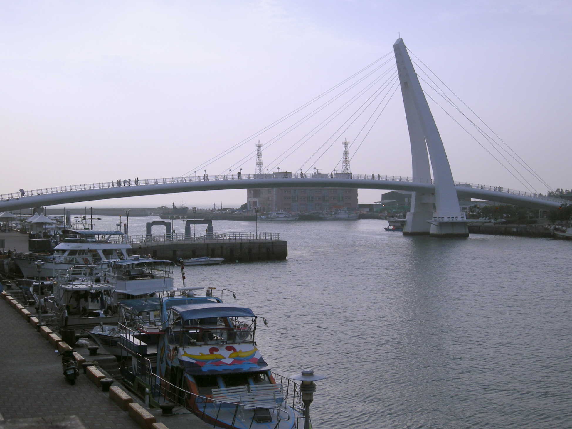 Fishermens' wharf and lovers' bridge, Danshui, Taiwan